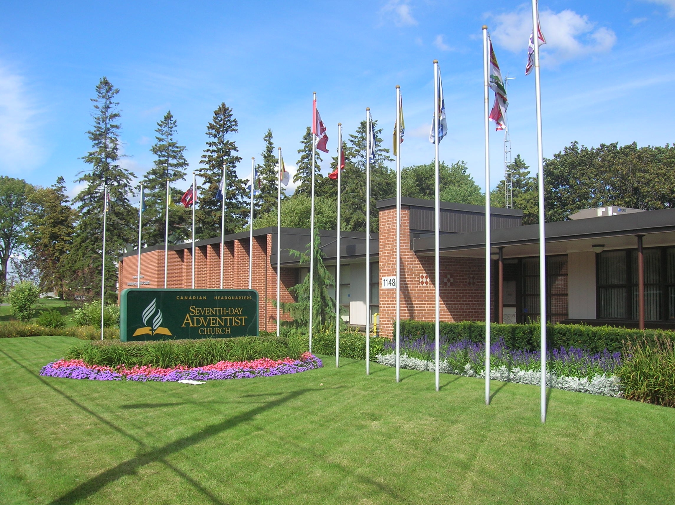 Seventh-day Adventist Church in Canada, Office